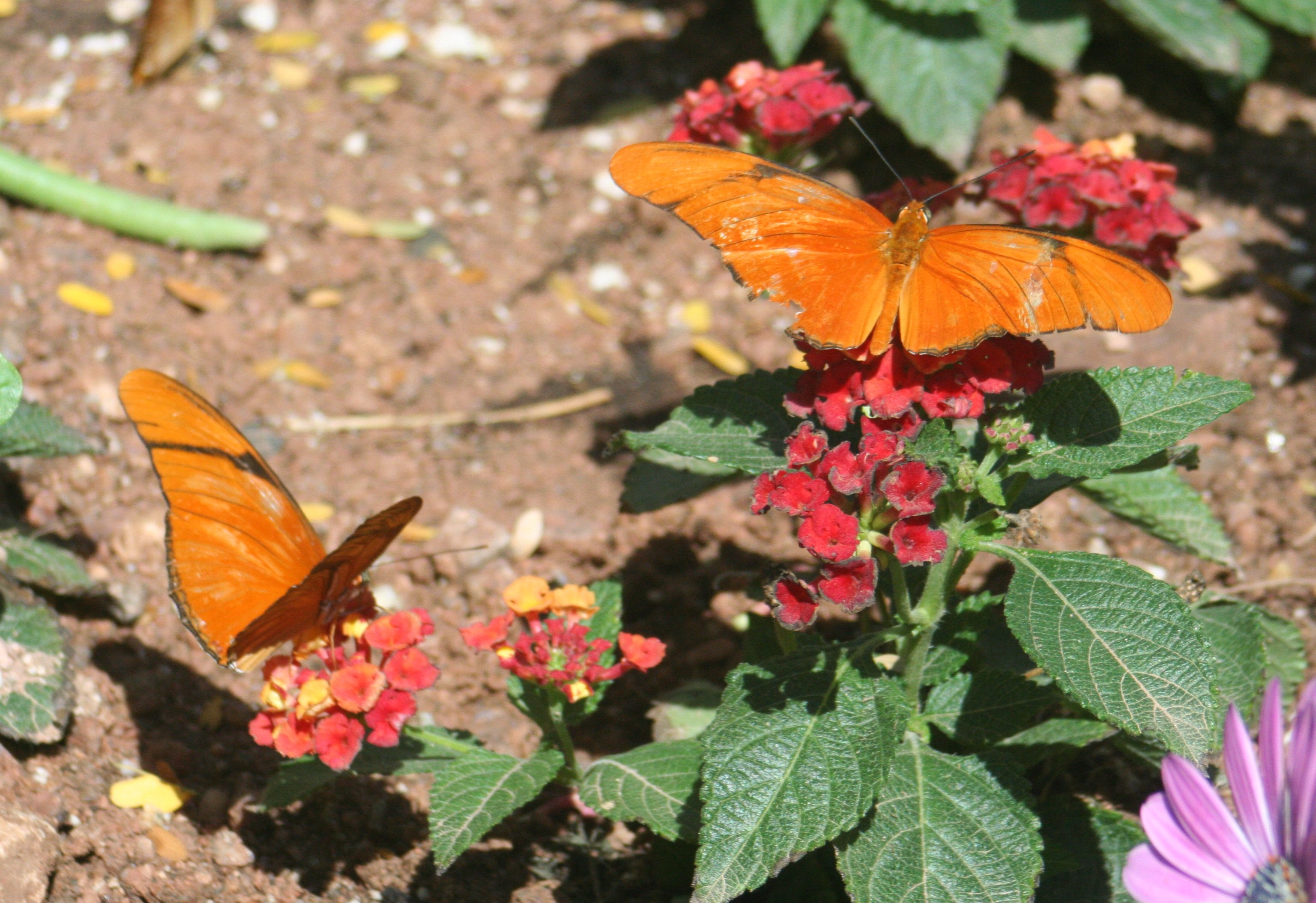 A pair of Julia butterflies (Dryas julia). Photographed at the Desert Botanical Garden's Maxine and Jonathan Marshall Butterfly Pavilion, Phoenix, AZ.